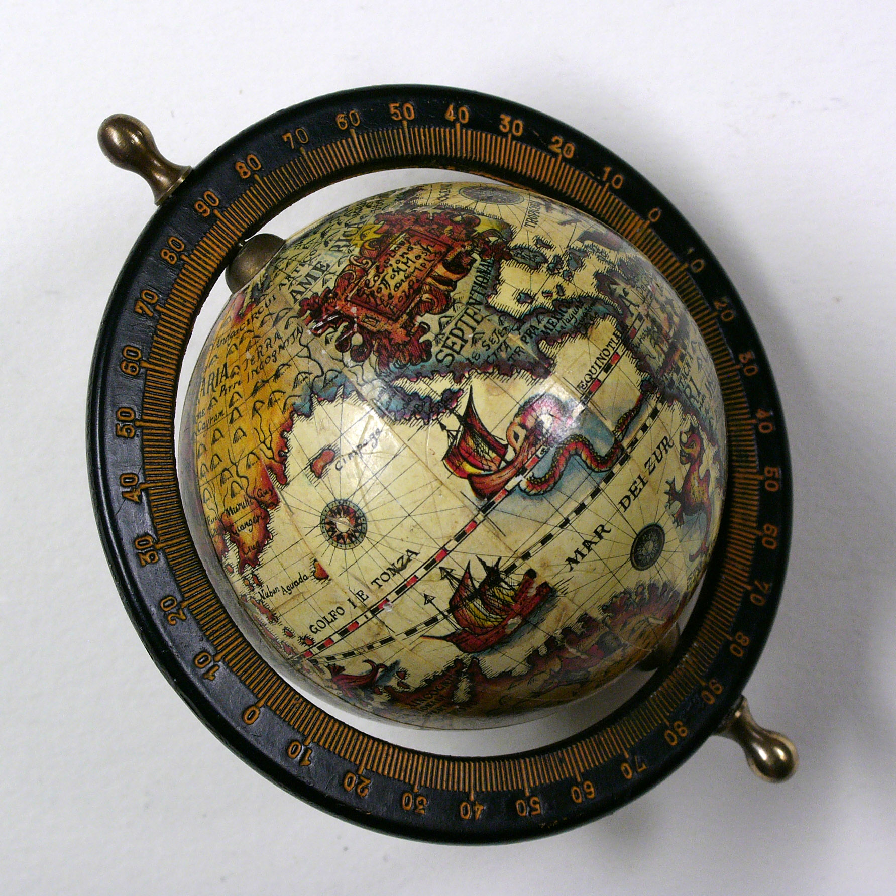 Globus from book shelf